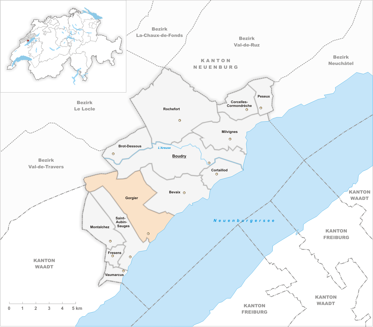 Municipality Gorgier